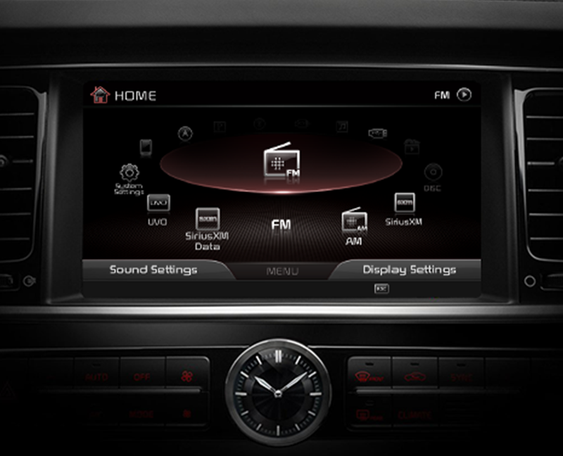 UVO eServices with Premium Nav Headunit from a 2015 K900